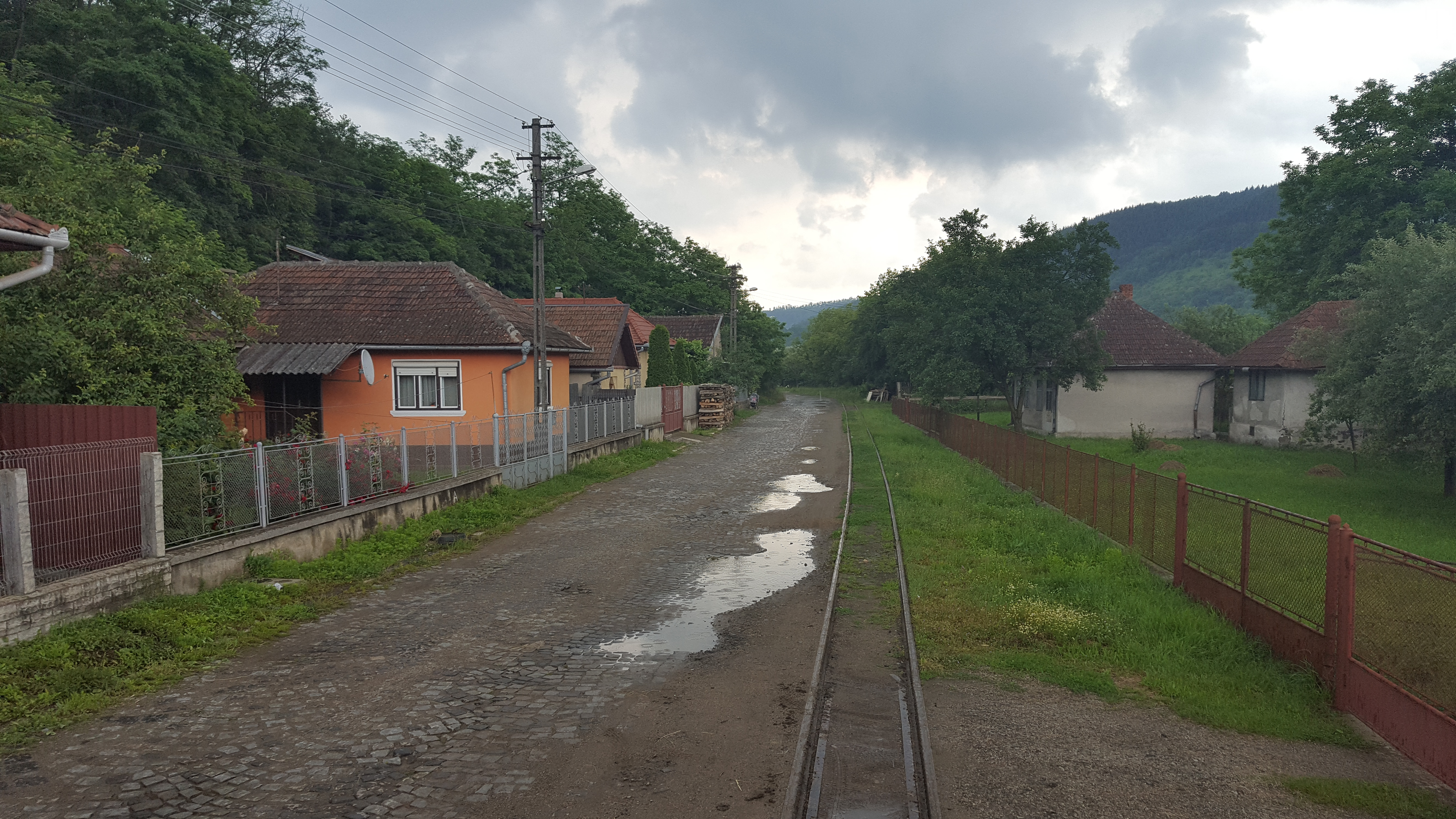 A narrow-gauge railway passing through Brad, Romania